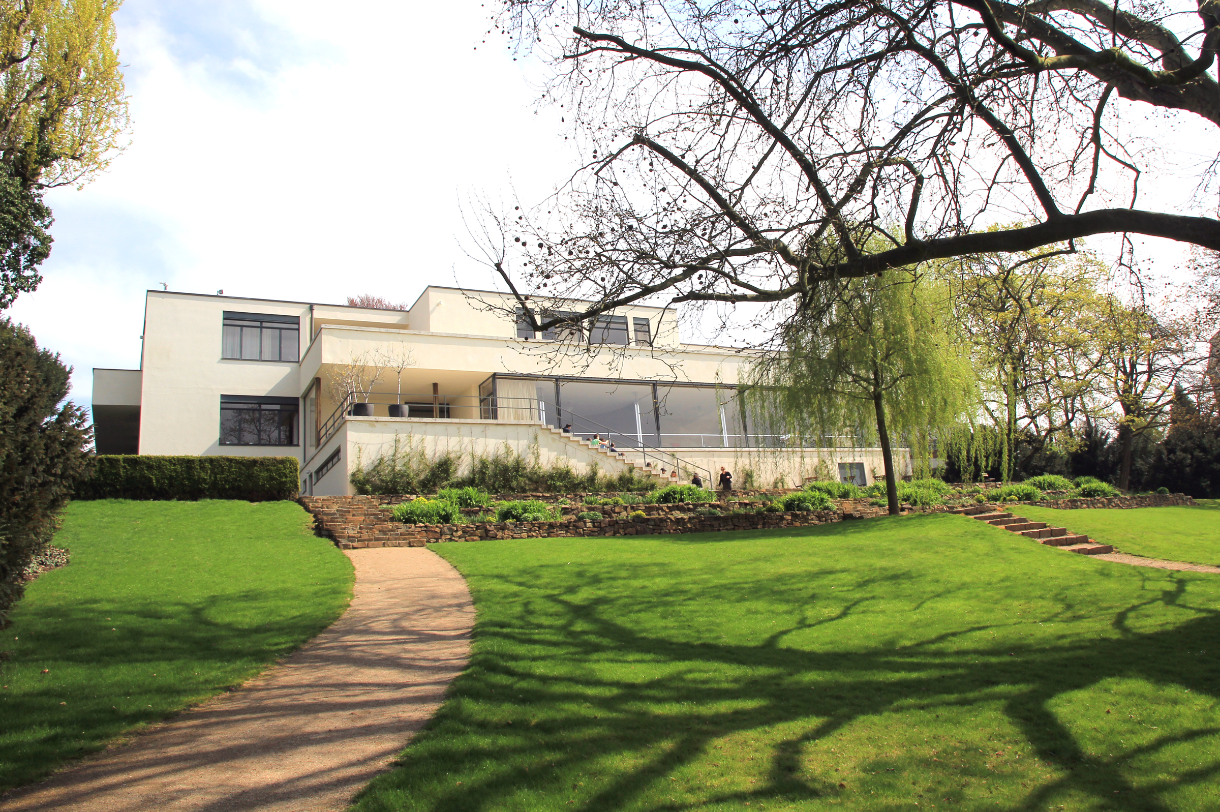 Villa Tugendhat in town Brno, Czech Republic